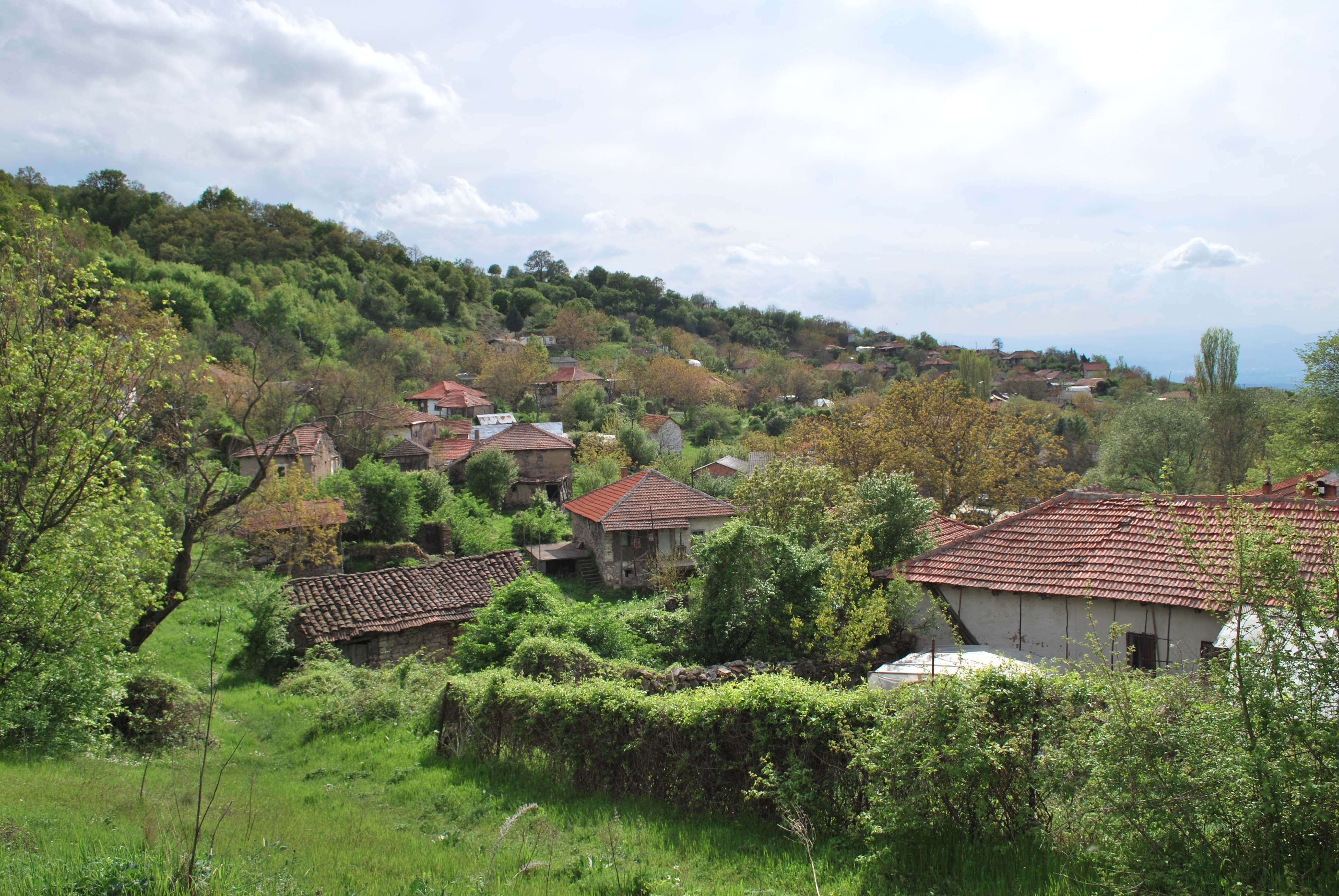 Divlje, Macedonia